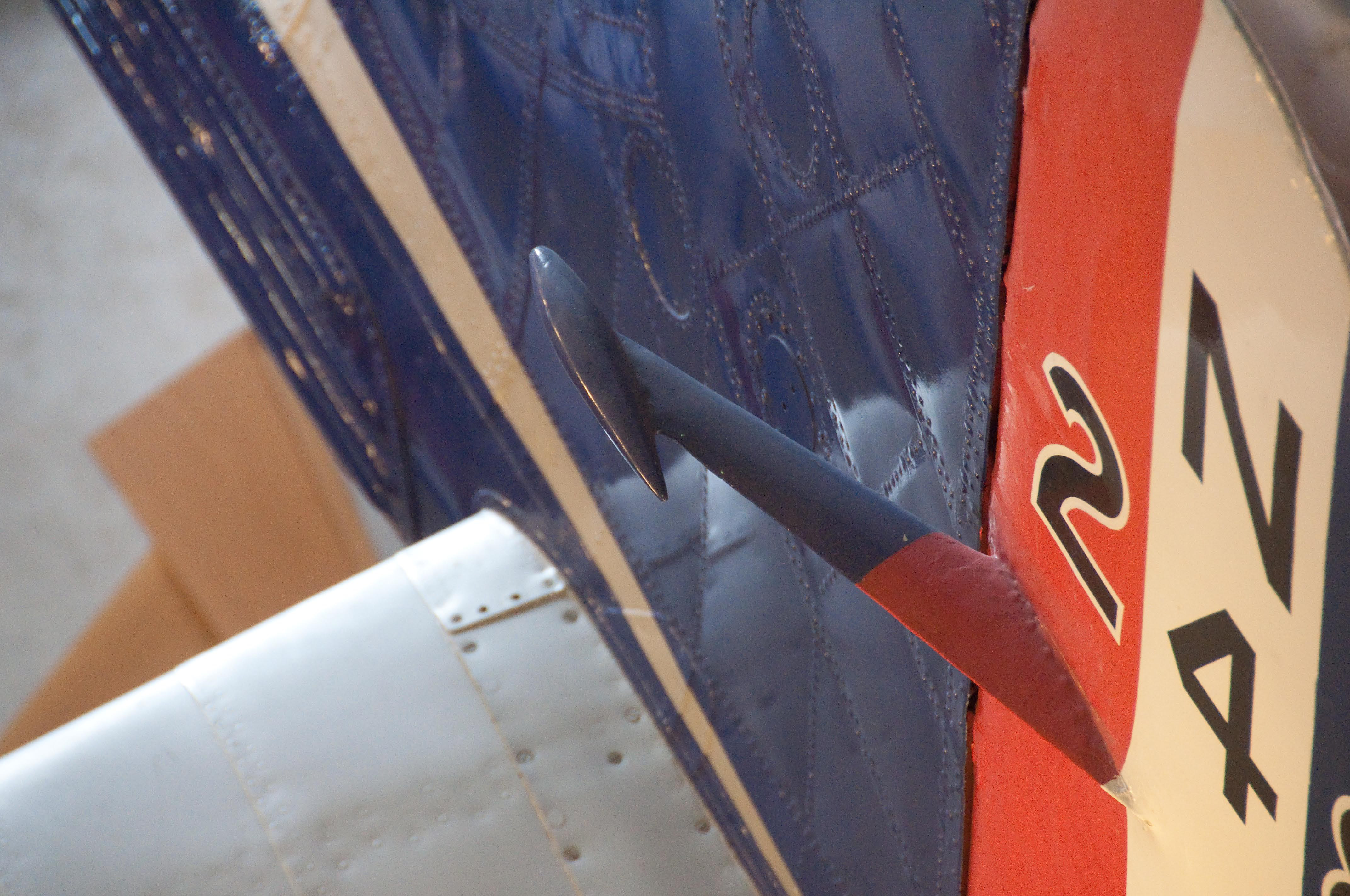 Detail of rudder balance weight